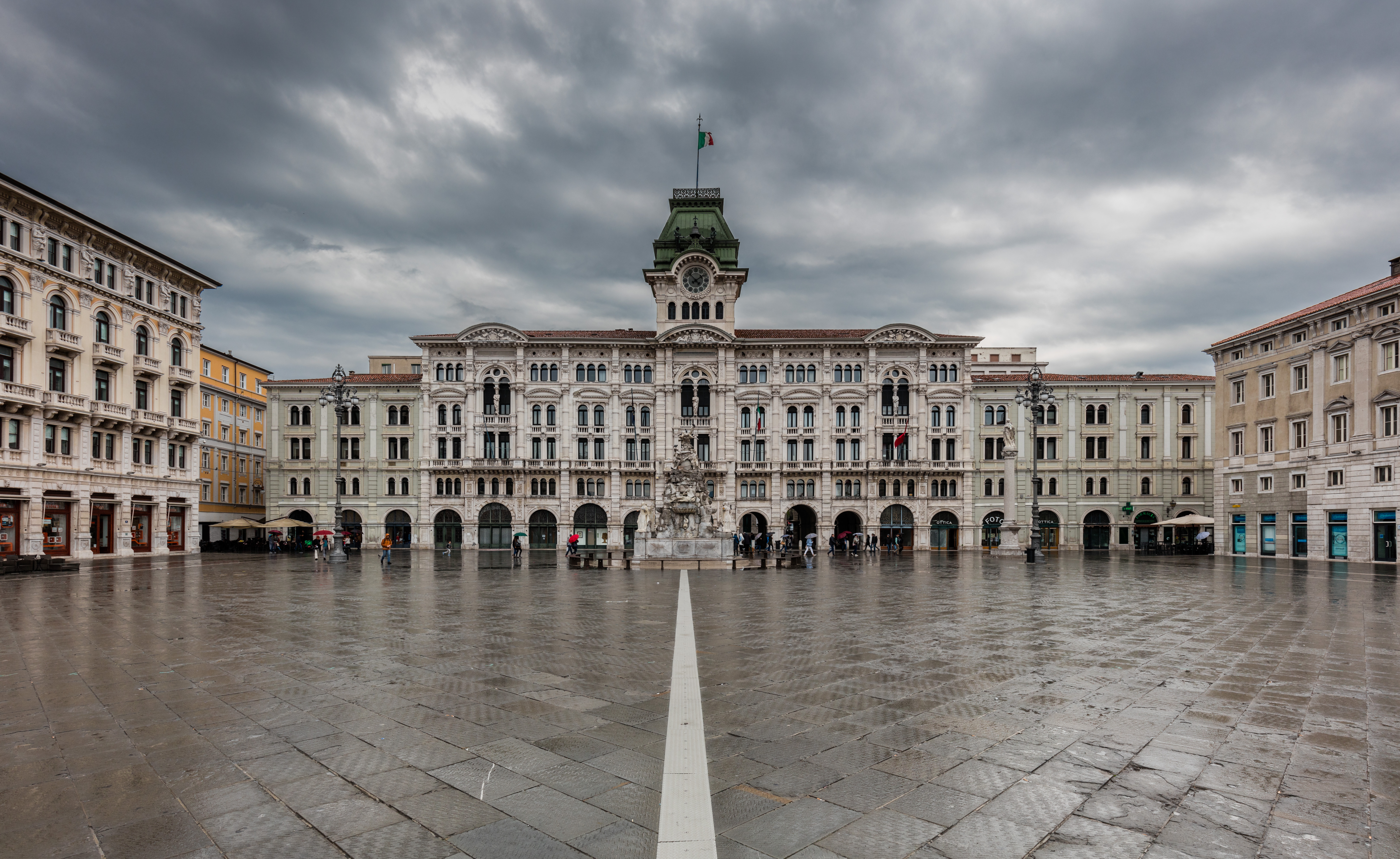 View of the town hall in a grey day, Unity of Italy Square, Trieste, Italy. The building dates from 1875 and is a work of italian architect Giuseppe Bruni.